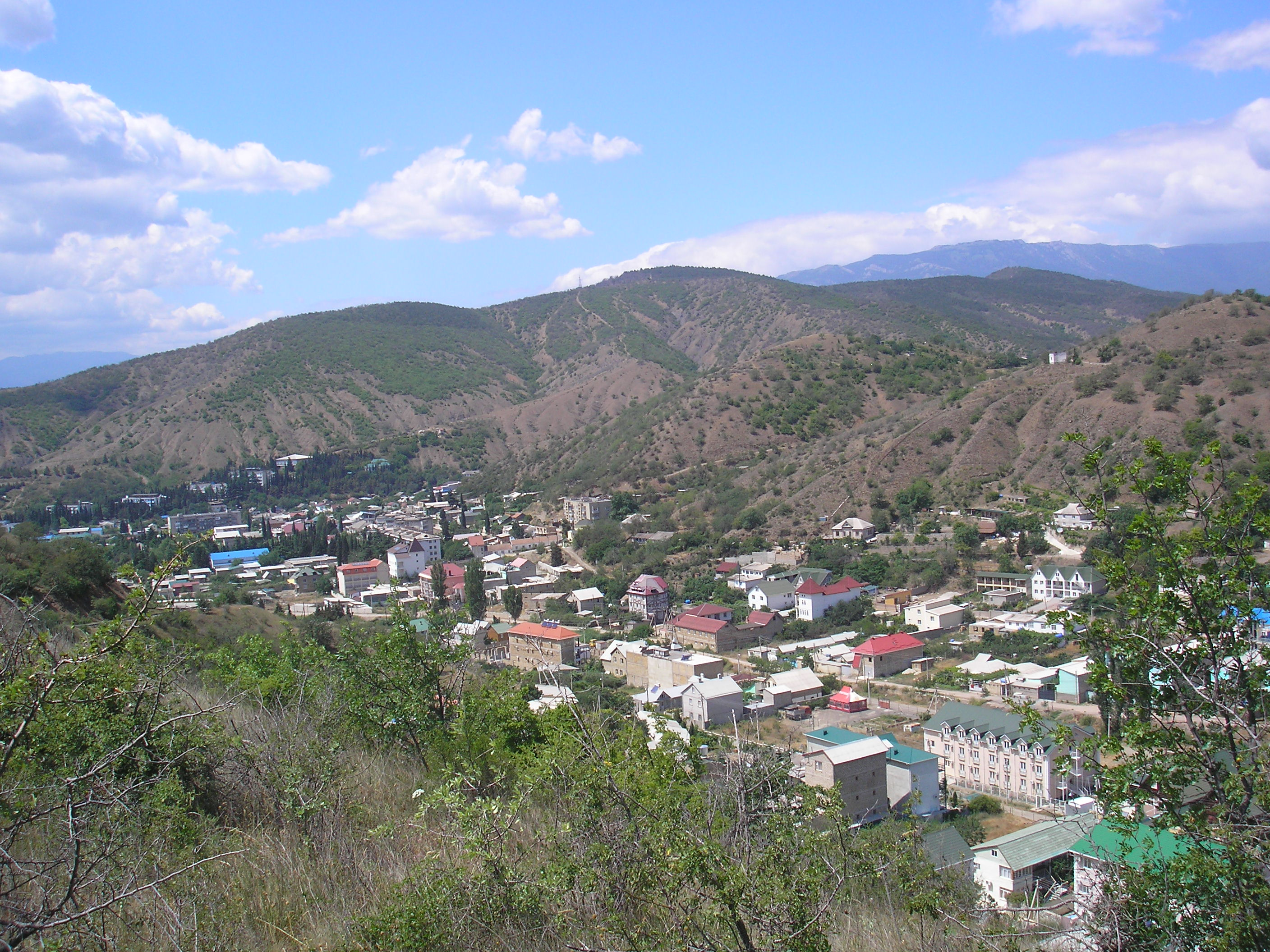 Village Ribachye, Alushta city council, Crimea.